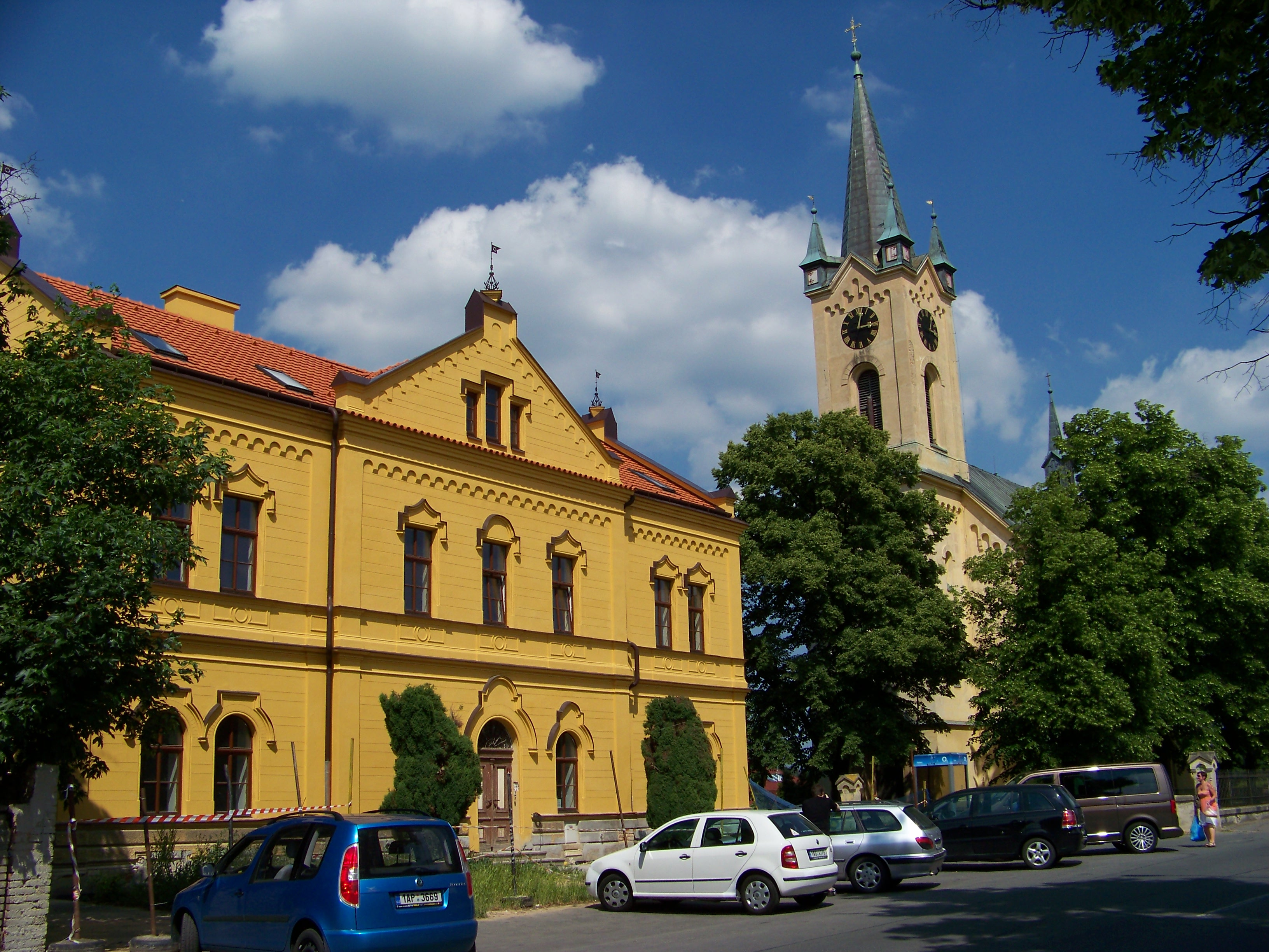 Prague-Nebušice, the Czech Republic. Nebušická street. - Google Maps - Google Earth